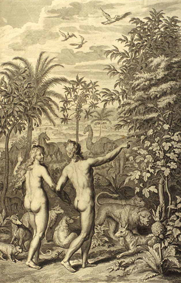 Adam and Eve were both naked & were not ashamed, as in Genesis 2:25: "And they were both naked, the man and his wife, and were not ashamed." (KJV) illustration from the 1728 Figures de la Bible; illustrated by Gerard Hoet (1648–1733) and others, and published by P. de Hondt in The Hague; image courtesy Bizzell Bible Collection, University of Oklahoma Libraries